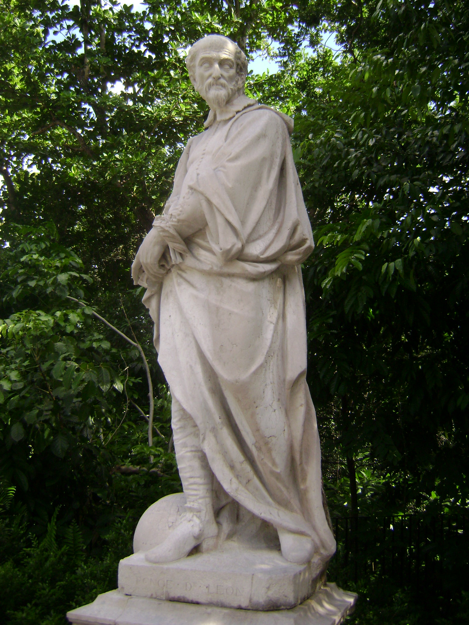 Sculpture of Ponce de Leon from Vizcaya Estate in Miami Florida.